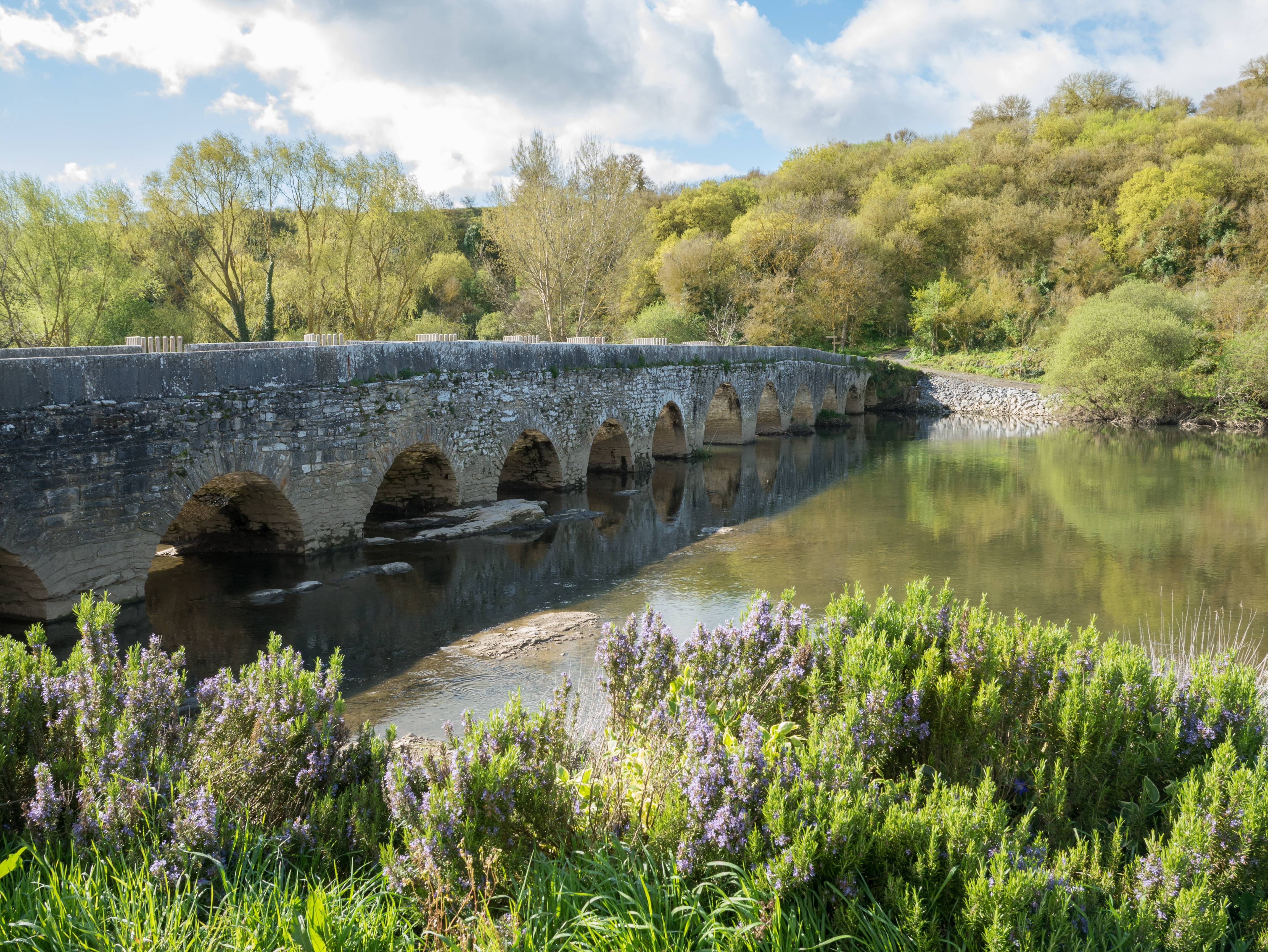 Bridge in Tres Puentes. Iruña de Oca, Álava, Basque Country, Spain